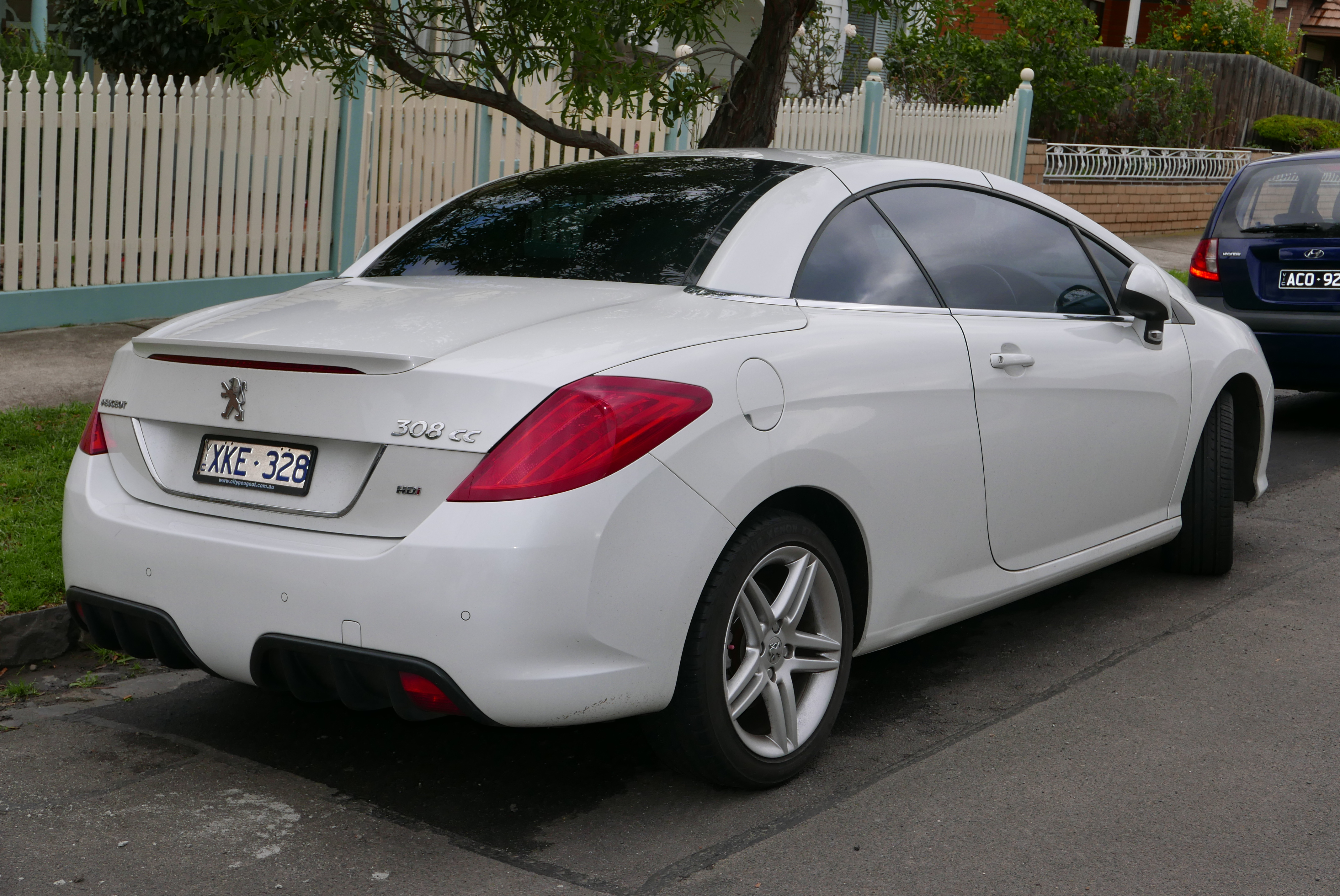 2009 Peugeot 308 (T7) CC HDi convertible. Photographed in Brunswick, Victoria, Australia. Vehicle registration enquiry results Jurisdiction Victoria Registration XKE328 Chassis code VF34BRHRJ9S104361 Engine code 10DYXG4011382 Compliance date 2009-08 Year of manufacture 2009